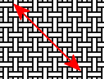 Illustration of bias (fabric)